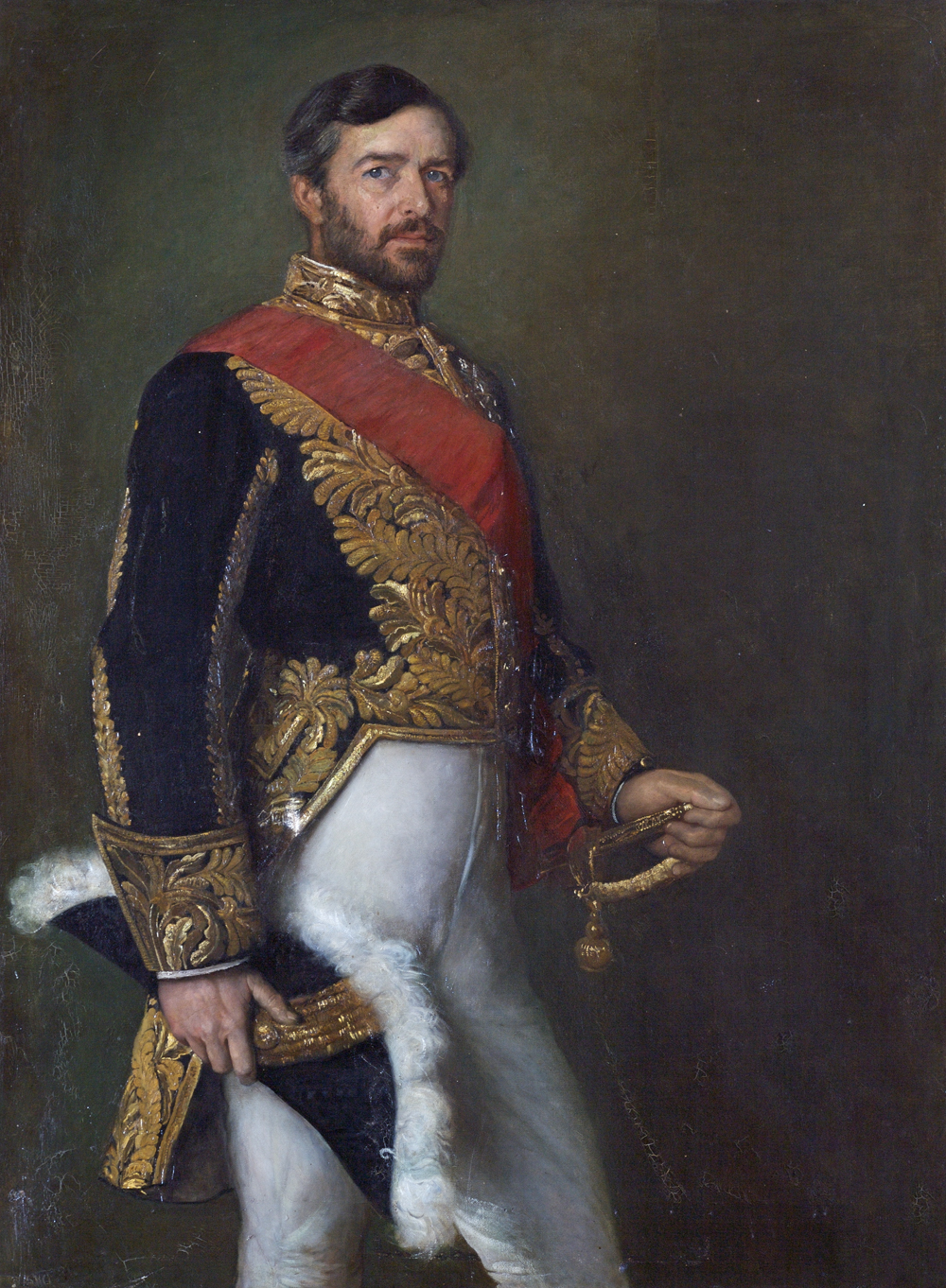 Sir Edward Malet (1837–1908), GCB, GCMG, PC by unknown artist Oil on canvas, 136 x 101.5 cm Collection: Dillington House